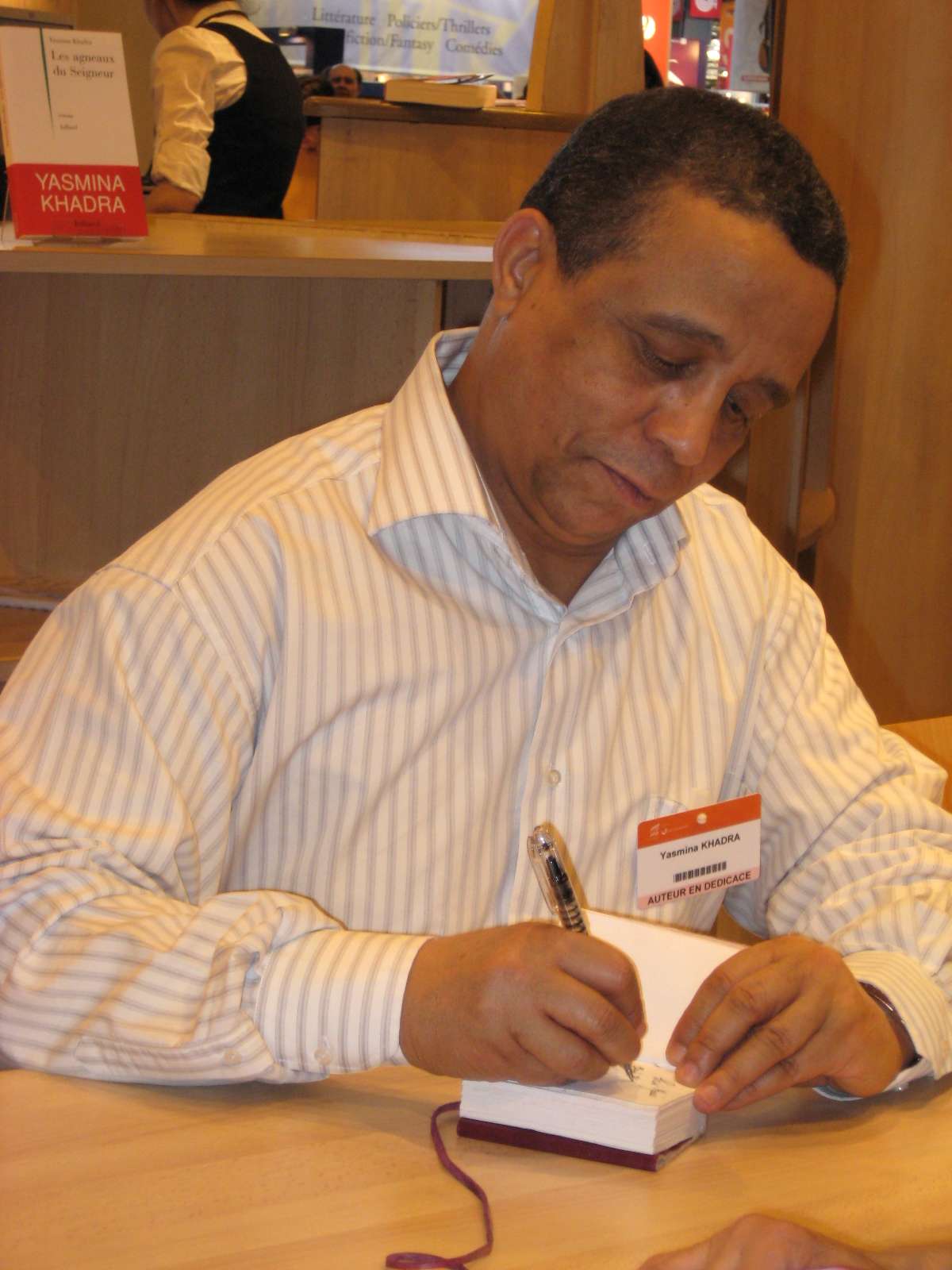 Yasmina Khadra, french writer, presenting last book, Salon du Livre de Paris, 17 mars 2009